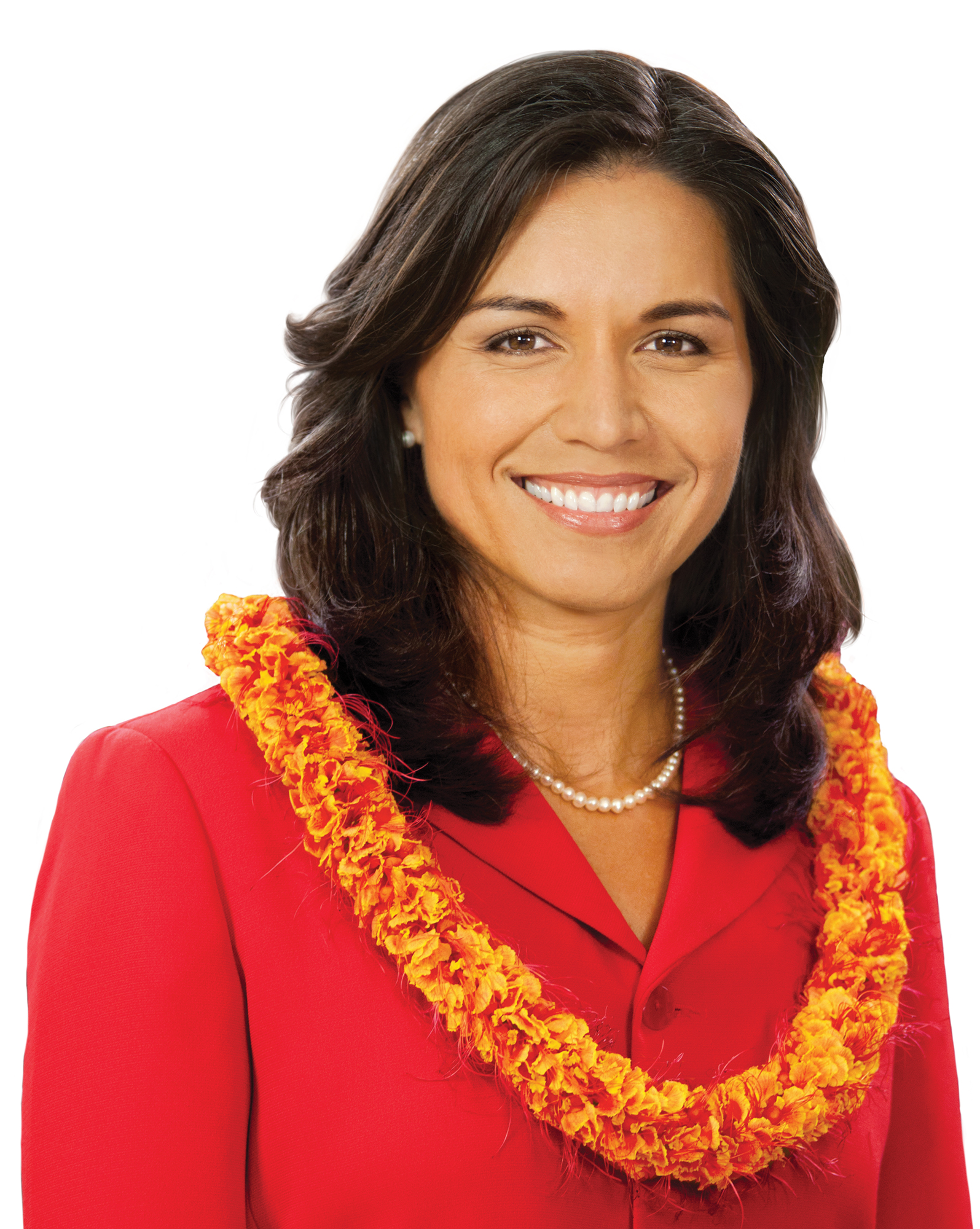 Picture of Tulsi Gabbard